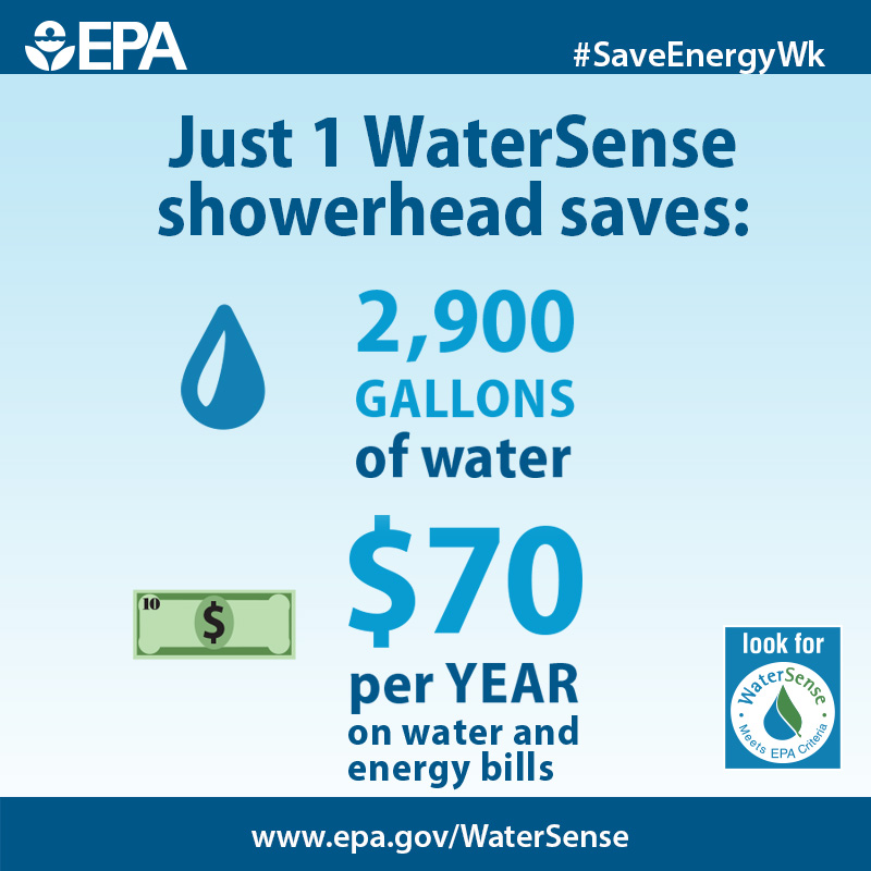 Saving water saves energy and money. A WaterSense showerhead can save you 2,900 gallons of water, and uses less hot water, saving enough energy to power your home for 13 days each year. #SaveEnergyWk